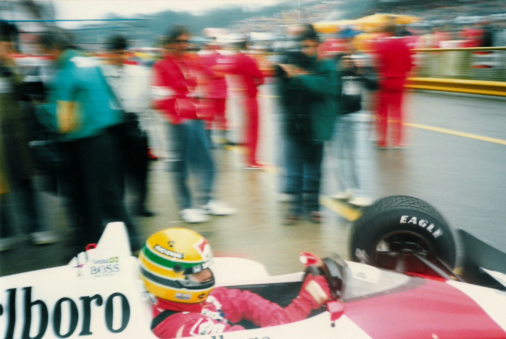 Ayrton Senna leaving the pits at the 1988 Imola Grand Prix